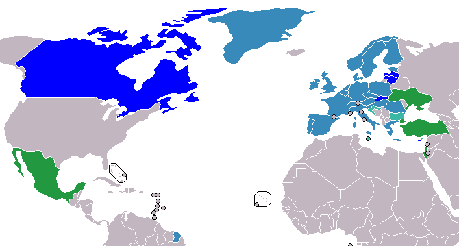 European Space Agency members, associates, applicants